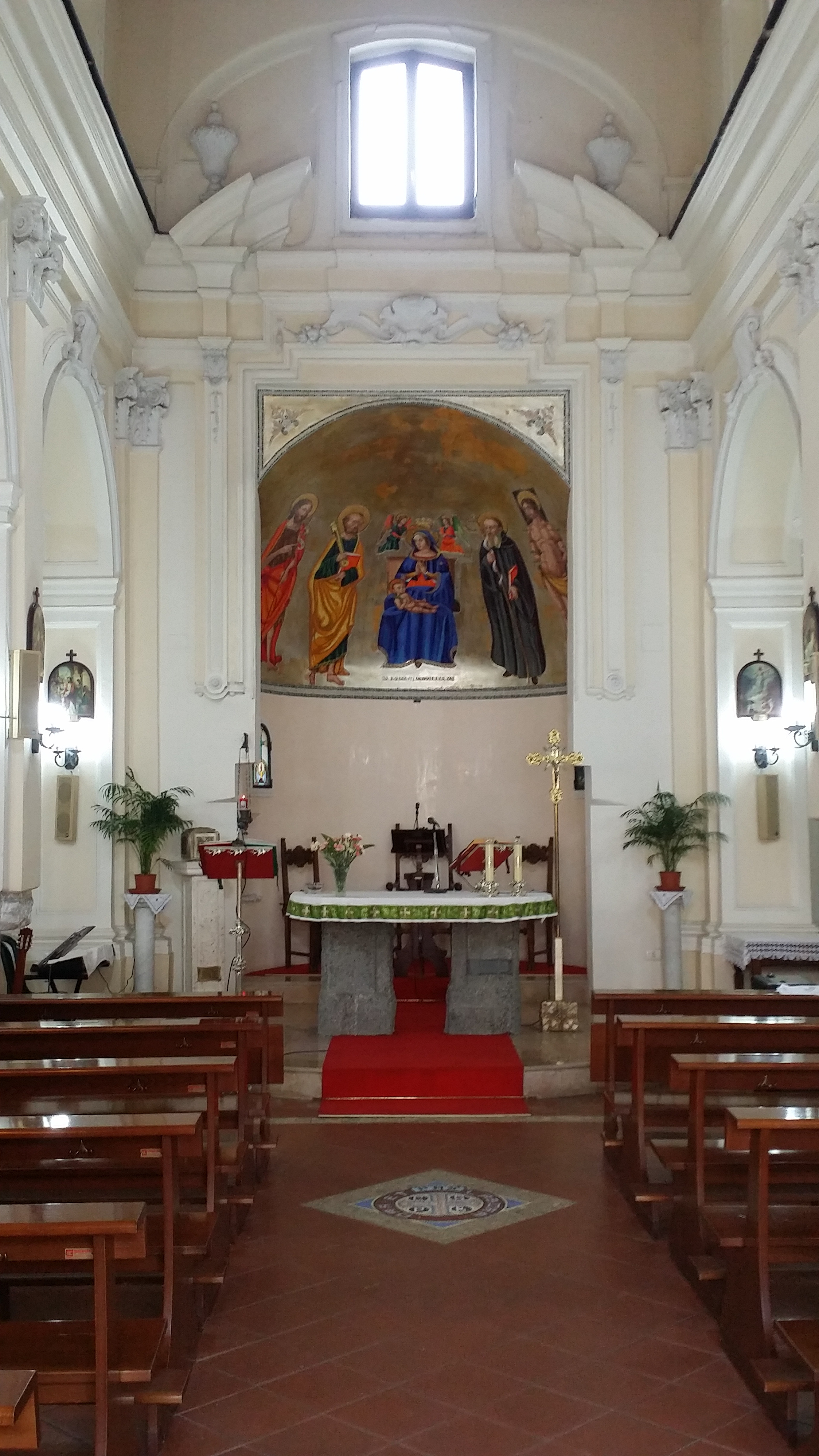 central nave of the church of San Benedetto da Norcia of Angri (Sa)